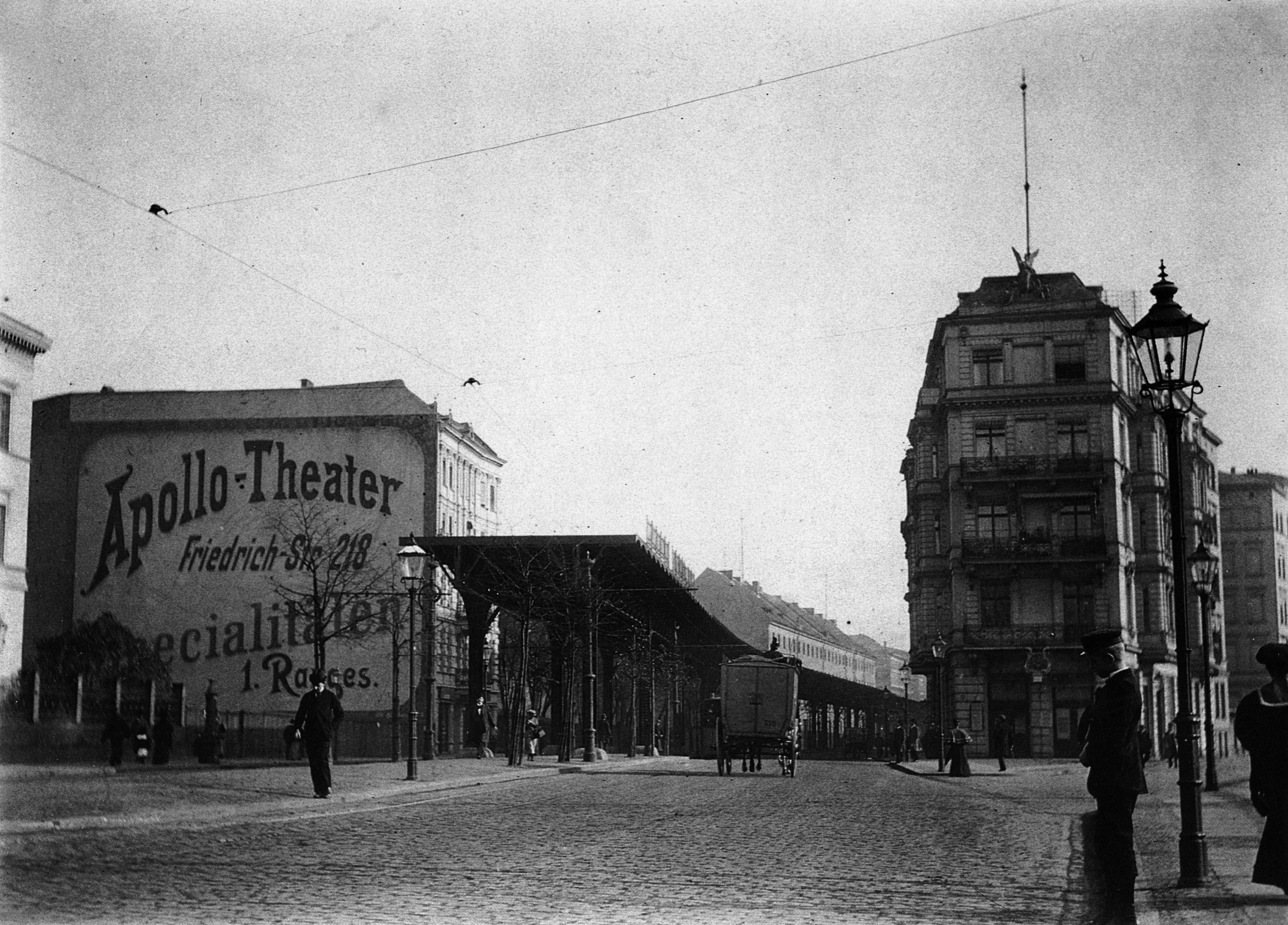 View down Gitschiner Straße, looking east, during the time of the construction of Berlin's elevated train, the modern U1 subway line.